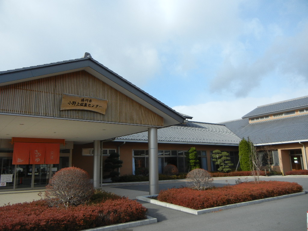 Sachinoyu-Shibukawa-Gunma. 群馬県渋川市の小野上温泉にある「さちのゆ」, Shibukawa.